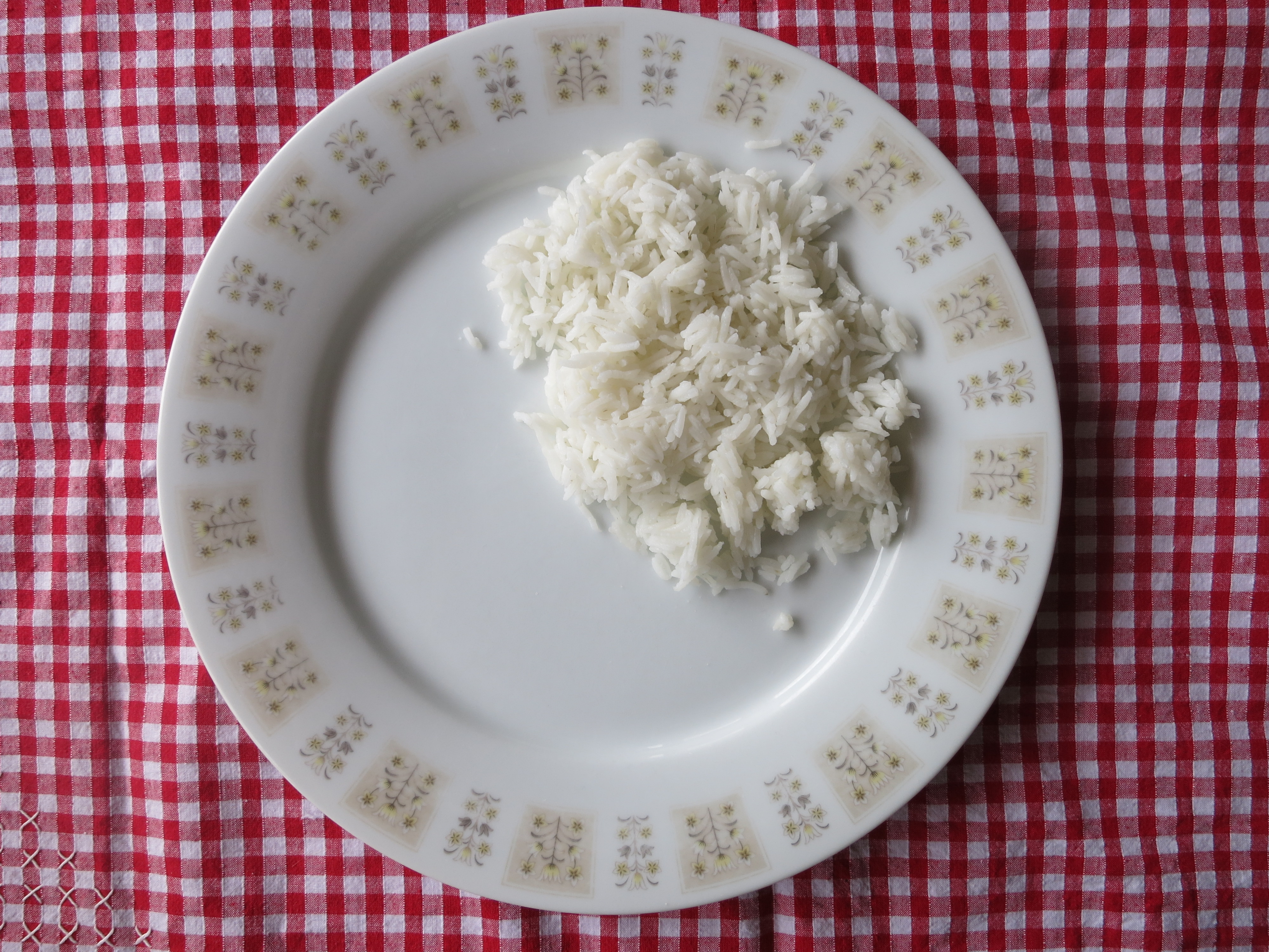 Half a cup of rice. Brown rice is the best choice